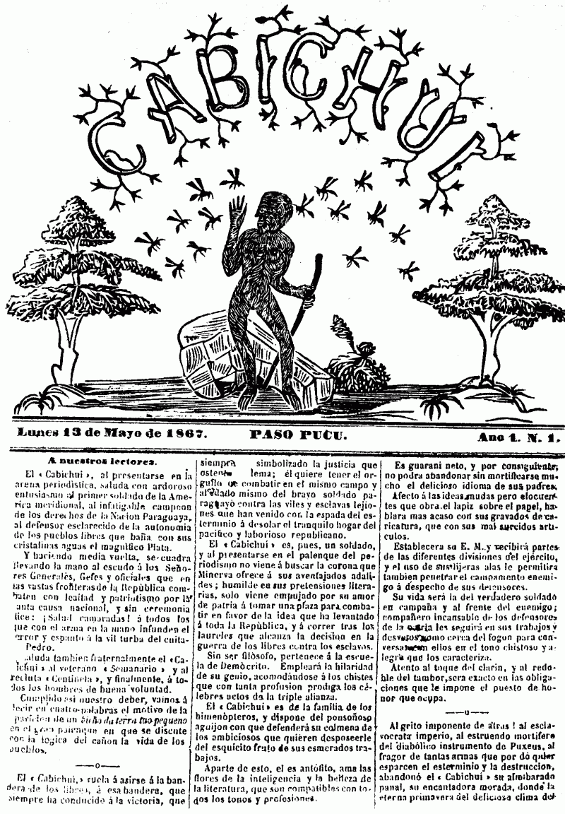 Page from first edition of "Cacique Lambare y de Cabichui"